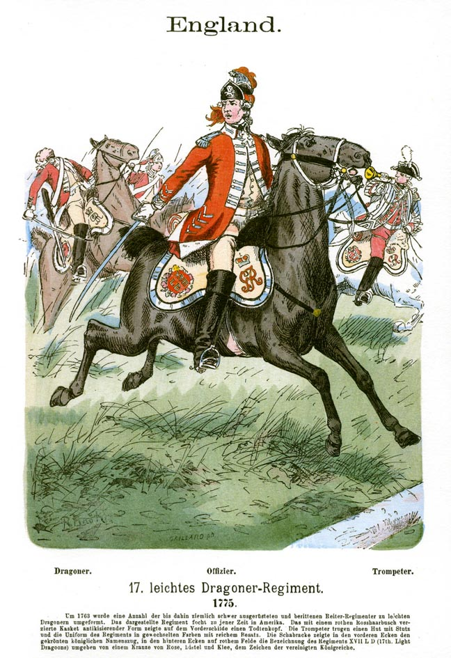 England, 17. leichtes Dragoner-Regiment. 1775